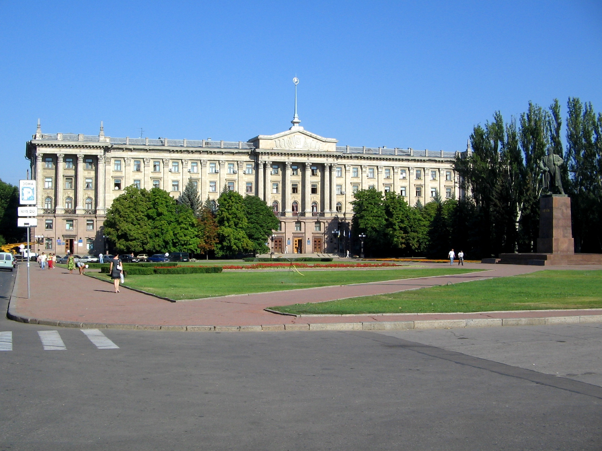 Горсовет (Николаев)